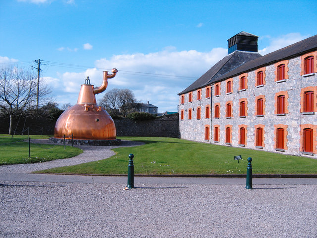 Jameson's Old Distillery, Midleton This distillery is now only used as a tourist attraction. Guided tours are available frequently throughout the day.